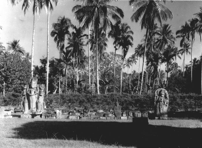 Indo-Javanese sculptures at the Candi Singosari